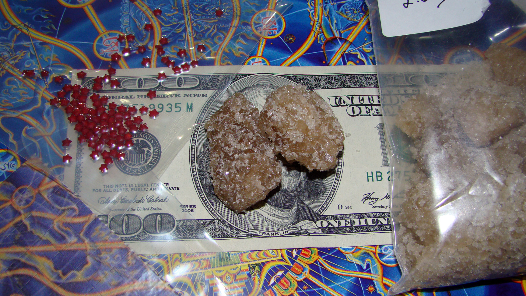 Red Star microdots & crystal MDMA